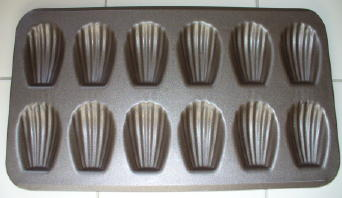 Picture of a tray used to bake madeleine cookies.